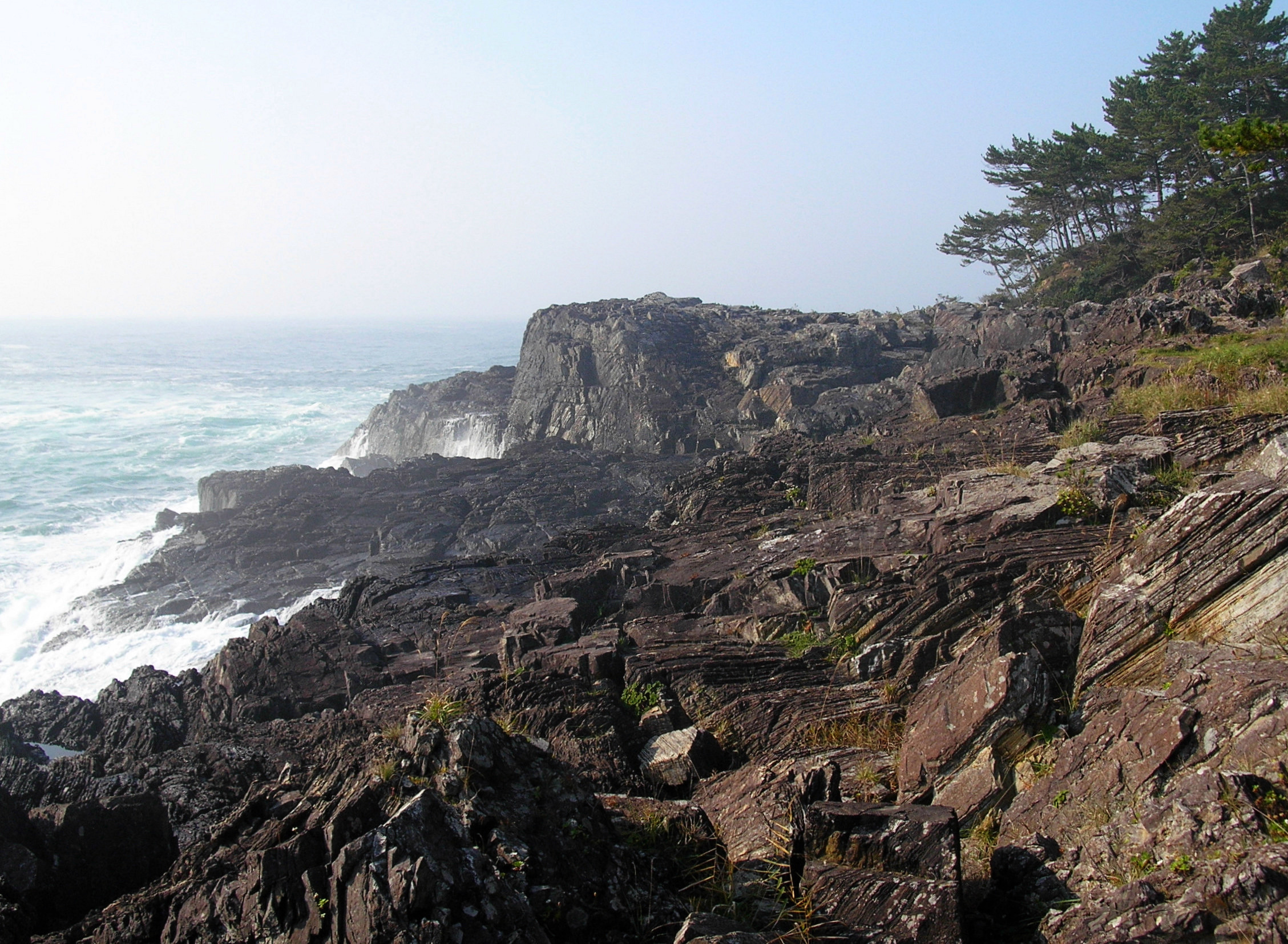 The Osaki headland in Kesennuma City, Miyagi Prefecture, Japan